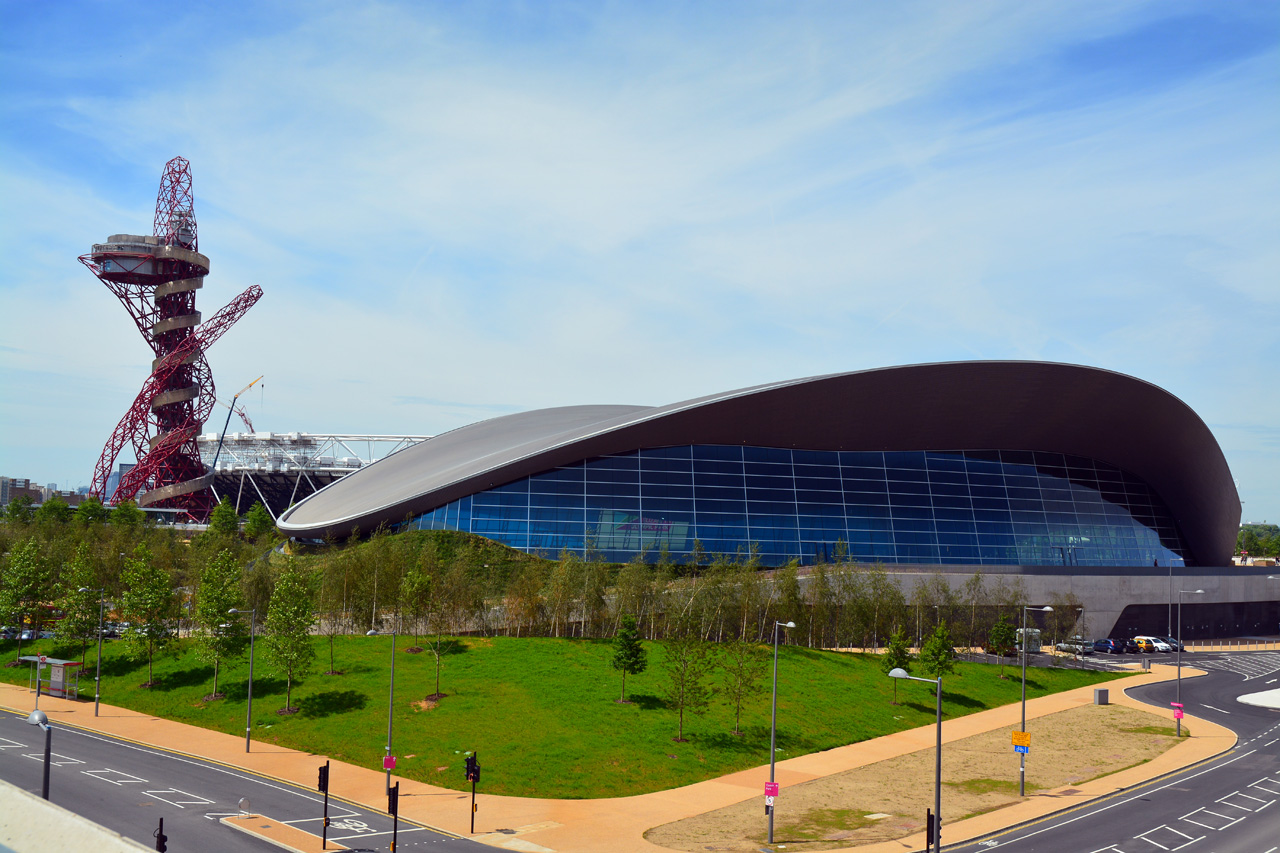 Orbit Tower: Anish Kapoor, Cecil Balmond, Ushida Findlay Architects, Arup. 2012. Aquatics Centre: Zaha Hadid Architects, Arup, 2012. RIBA London Award, 2014. London Borough of Newham. (CC BY-SA - anyone can freely use this size file anywhere, provided accompanied by the credit: Photo by George Rex.)